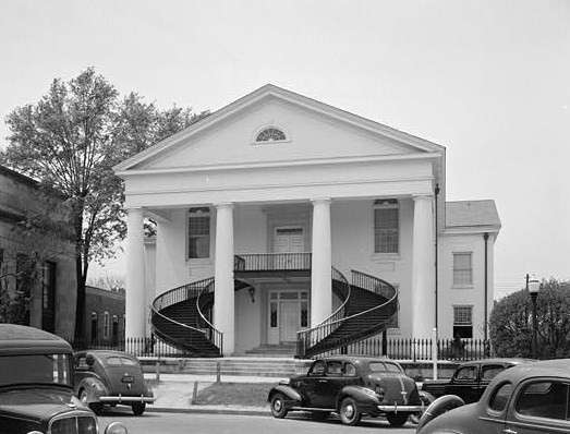 Fairfield County Courthouse, Congress & Washington Streets, Winnsboro (Fairfield County, South Carolina) - cropped This file comes from the Historic American Buildings Survey (HABS), Historic American Engineering Record (HAER) or Historic American Landscapes Survey (HALS). These are programs of the National Park Service established for the purpose of documenting historic places. Records consist of measured drawings, archival photographs, and written reports. When reusing please credit: Library of Congress, Prints & Photographs Division, SC,20-WINBO.V,1-9 This tag does not indicate the copyright status of the attached work. A normal copyright tag is still required. See Commons:Licensing for more information. This work is in the public domain in the United States because it is a work prepared by an officer or employee of the United States Government as part of that person’s official duties under the terms of Title 17, Chapter 1, Section 105 of the US Code. See Copyright. Note: This only applies to original works of the Federal Government and not to the work of any individual U.S. state, territory, commonwealth, county, municipality, or any other subdivision. This template also does not apply to postage stamp designs published by the United States Postal Service since 1978. (See § 313.6(C)(1) of Compendium of U.S. Copyright Office Practices). It also does not apply to certain US coins; see The US Mint Terms of Use. This file has been identified as being free of known restrictions under copyright law, including all related and neighboring rights.